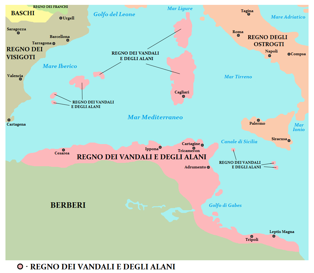 Kingdom of the Vandals and Alans.